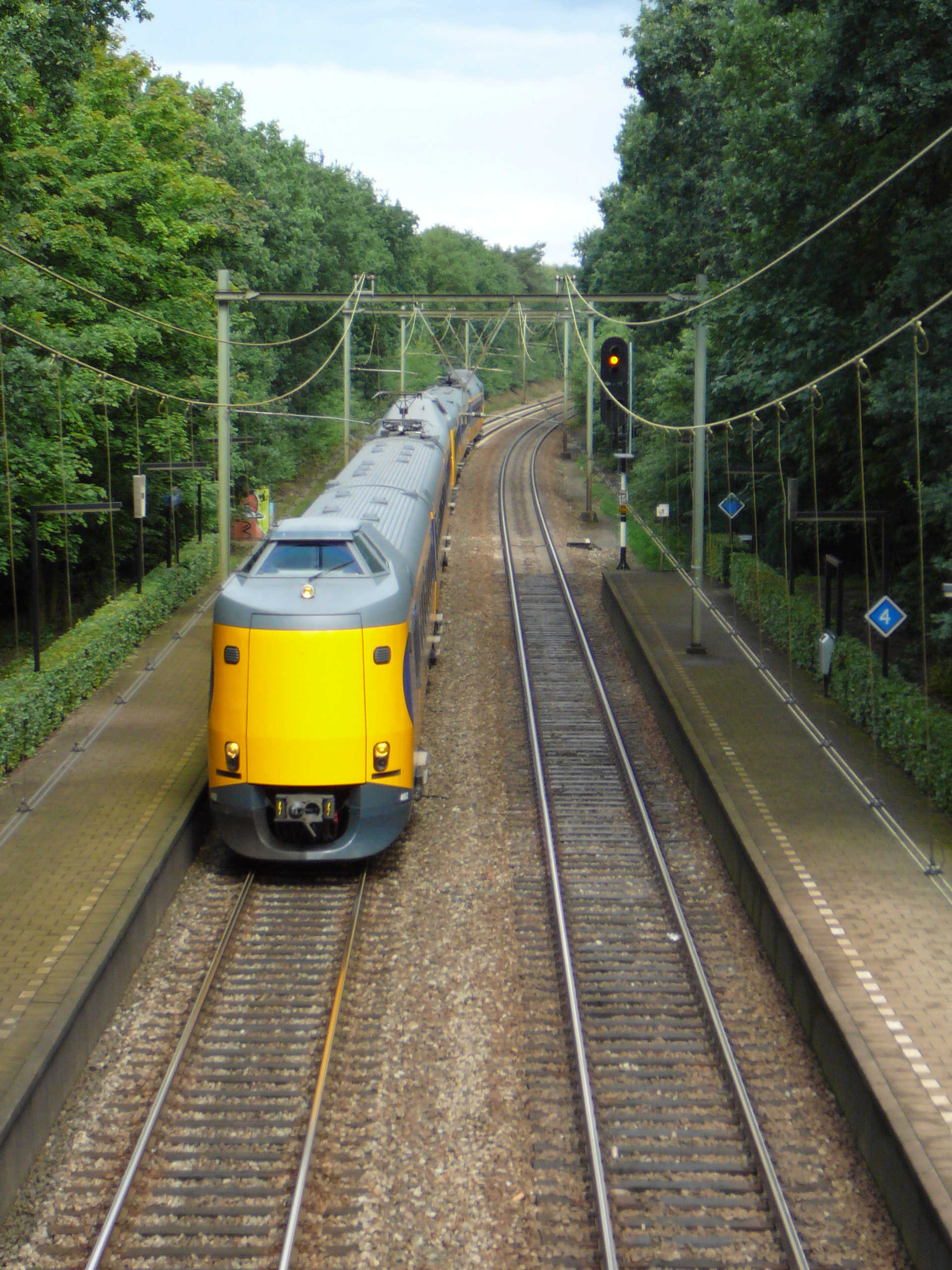 An ICM passing through the station. Intercity service near Hilversum Noord.